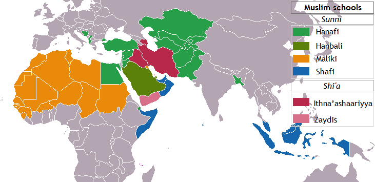 Map (by country) of the predominant areas of the four Sunni Madhhabs (مذاهب) or "schools" of legal interpretation, and the main forms of Shi`ism.